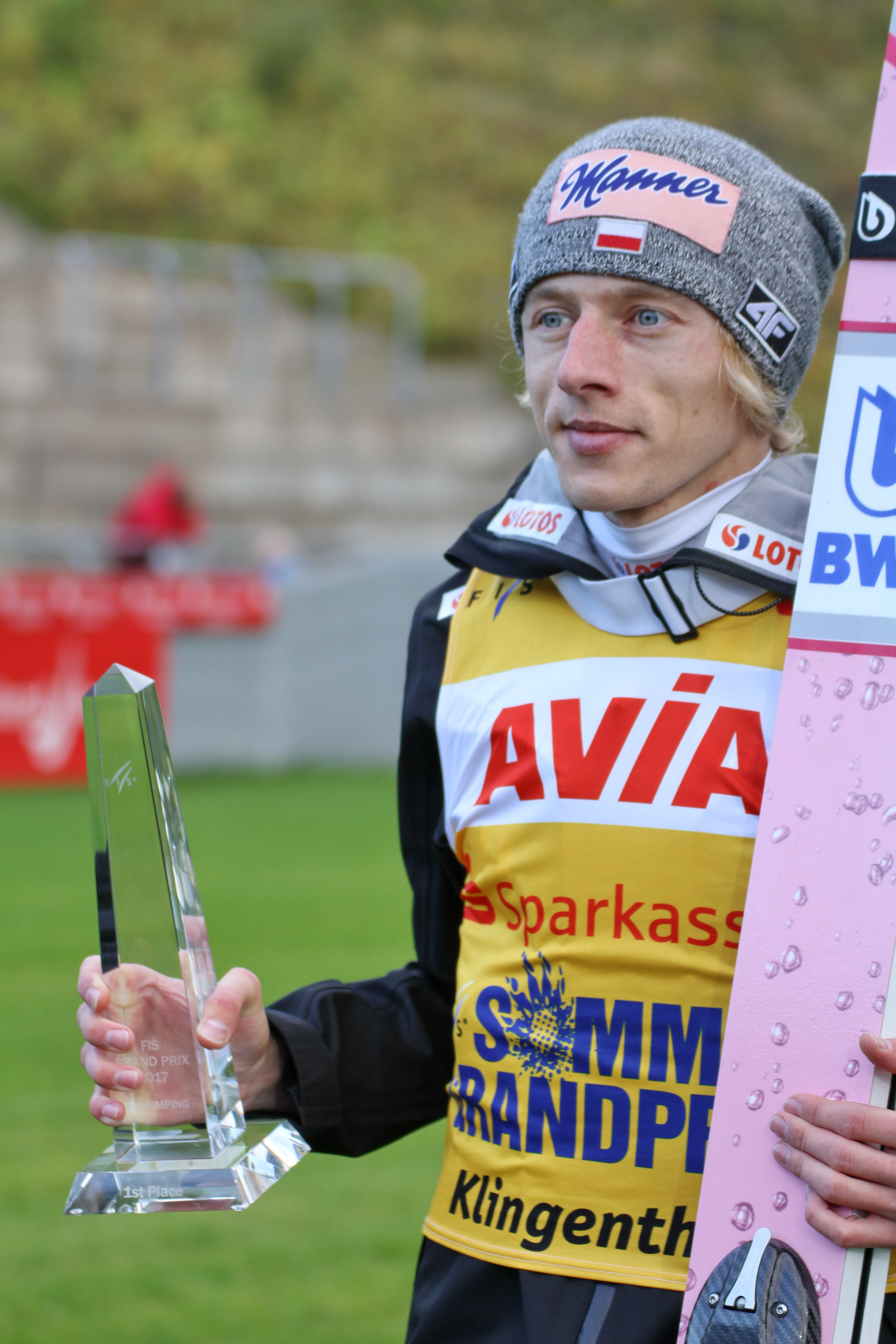 FIS Ski Jumping Summer Grand Prix Klingenthal 2017 on 2017-10-03 Dawid Kubacki